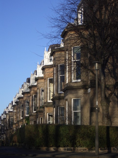 Magdala Crescent. Attractive townhouses overlooking Donaldsons school.